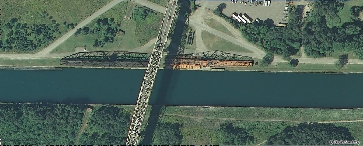 USGS satellite map showing the Sault Ste Marie International Railway bridge. This is the swing bridge, retracted to allow the passage of ships.